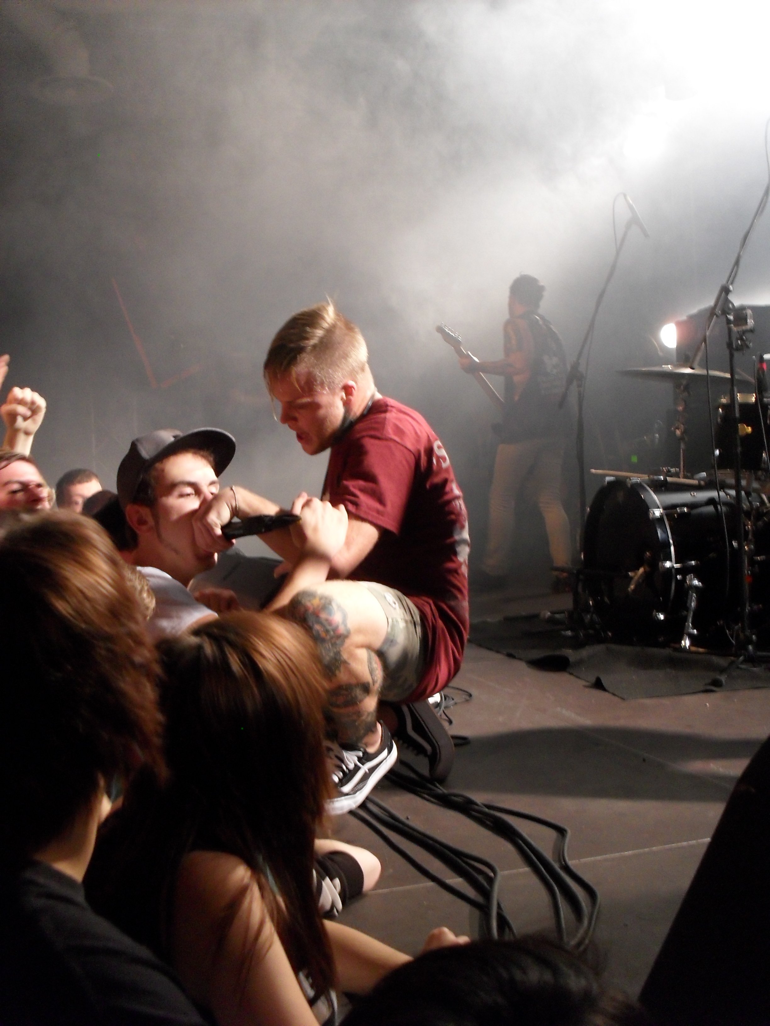 Chadwick Johnson, vocalist of Hundredth during their set at Impericon Never Say Die! Tour 2013 at Essigfabrik Cologne